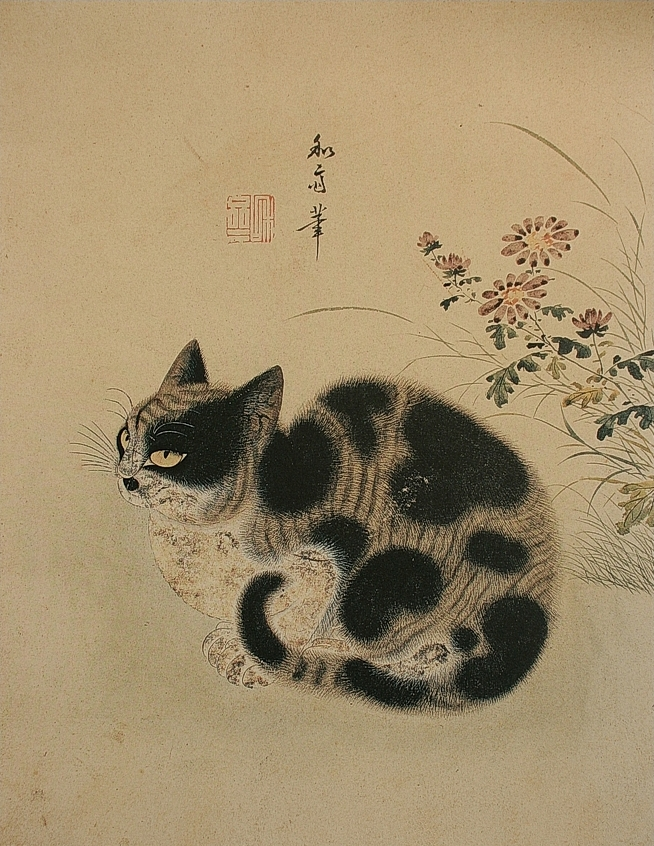 The picture titled "Gukjeong chumyo" (Autumn cat in a garden with chrysanthemum)" is painted by Byeon Sang-byeok.